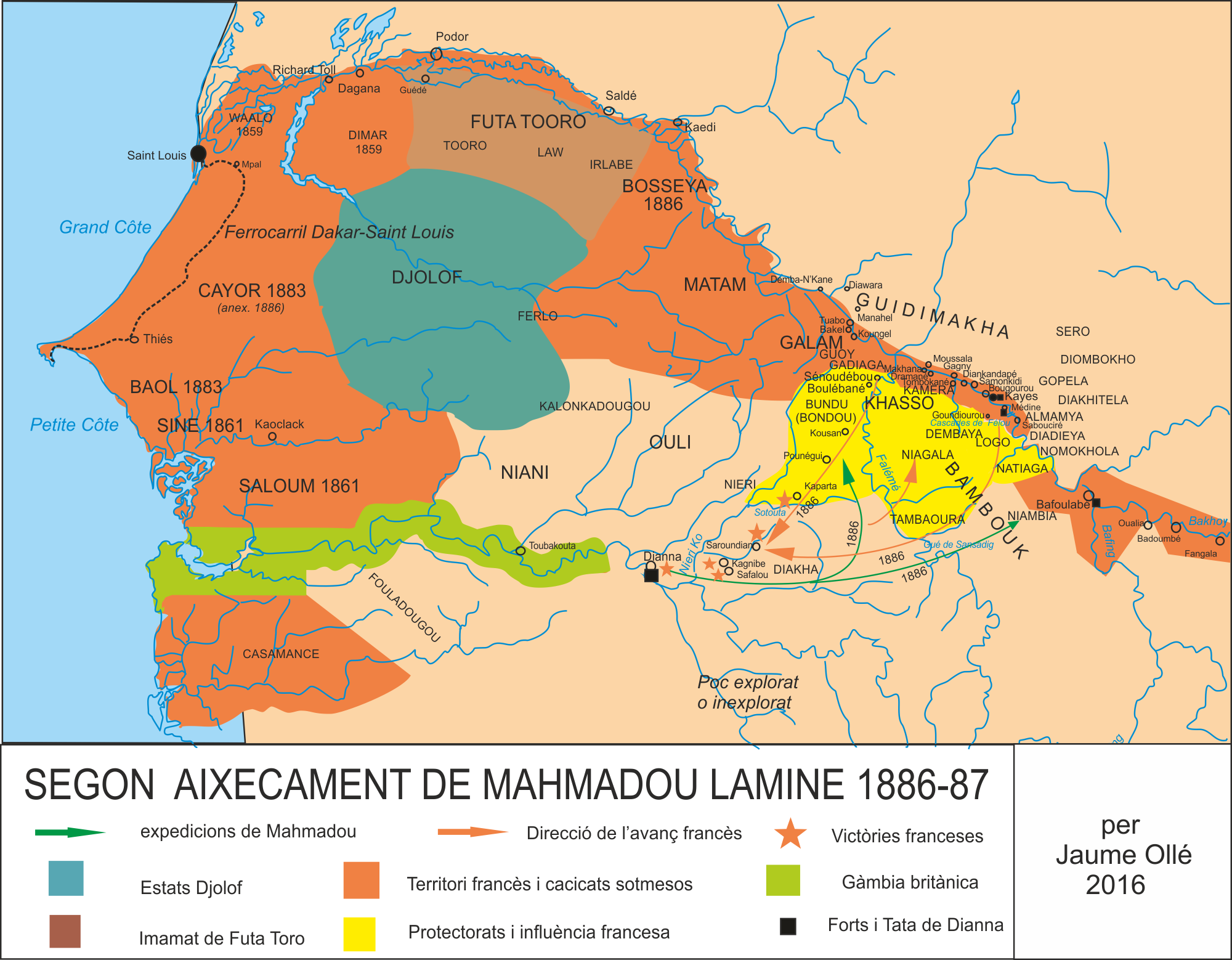 Mahmadou Lamine resistence to french colonialism in winter 1886-1887